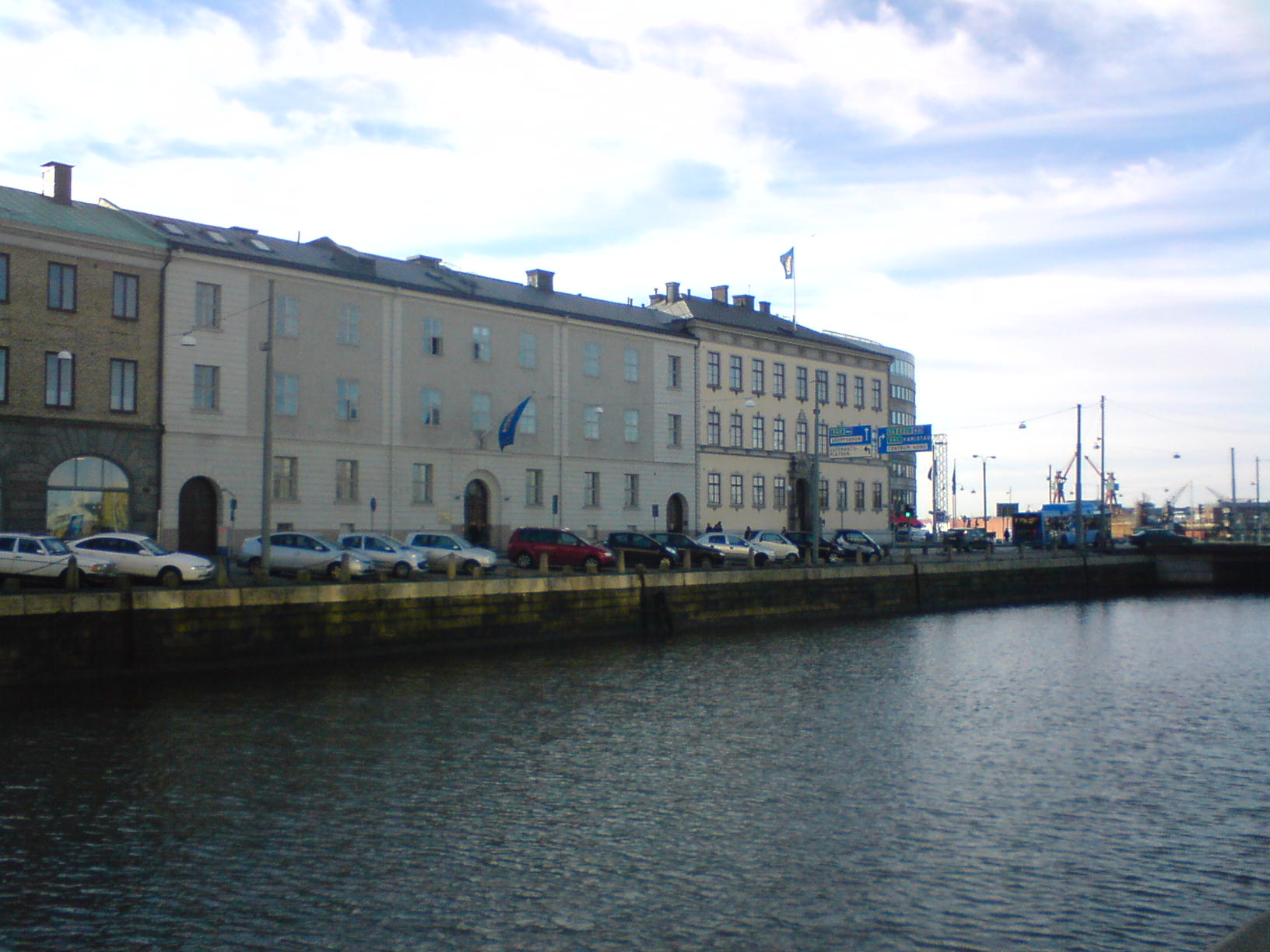 Länsresidenset or Landshövdingeresidenset, the county governor's house or residence is the yellow house to the right. – More information about the administrative counties of Sweden can be found in these two articles: County Administrative Boards of Sweden and Län). – This house is also traditionally called Torstensonska palatset - "the Torstenson Palace", after the Nobleman Lennart Torstenson who originally owned it. The grey house to the left was originally an administrative building belonging to the County Administrative Board in Swedish länsstyrelsen. It is called Landsstatshuset after the fiscal name of the Board, landsstaten. The two houses stand next to Stora Hamnkanalen (literally: "The Main Harbour (or Haven) Canal") the main city canal in Göthenburg/Göteborg, near its mouth into the river Göta älv.